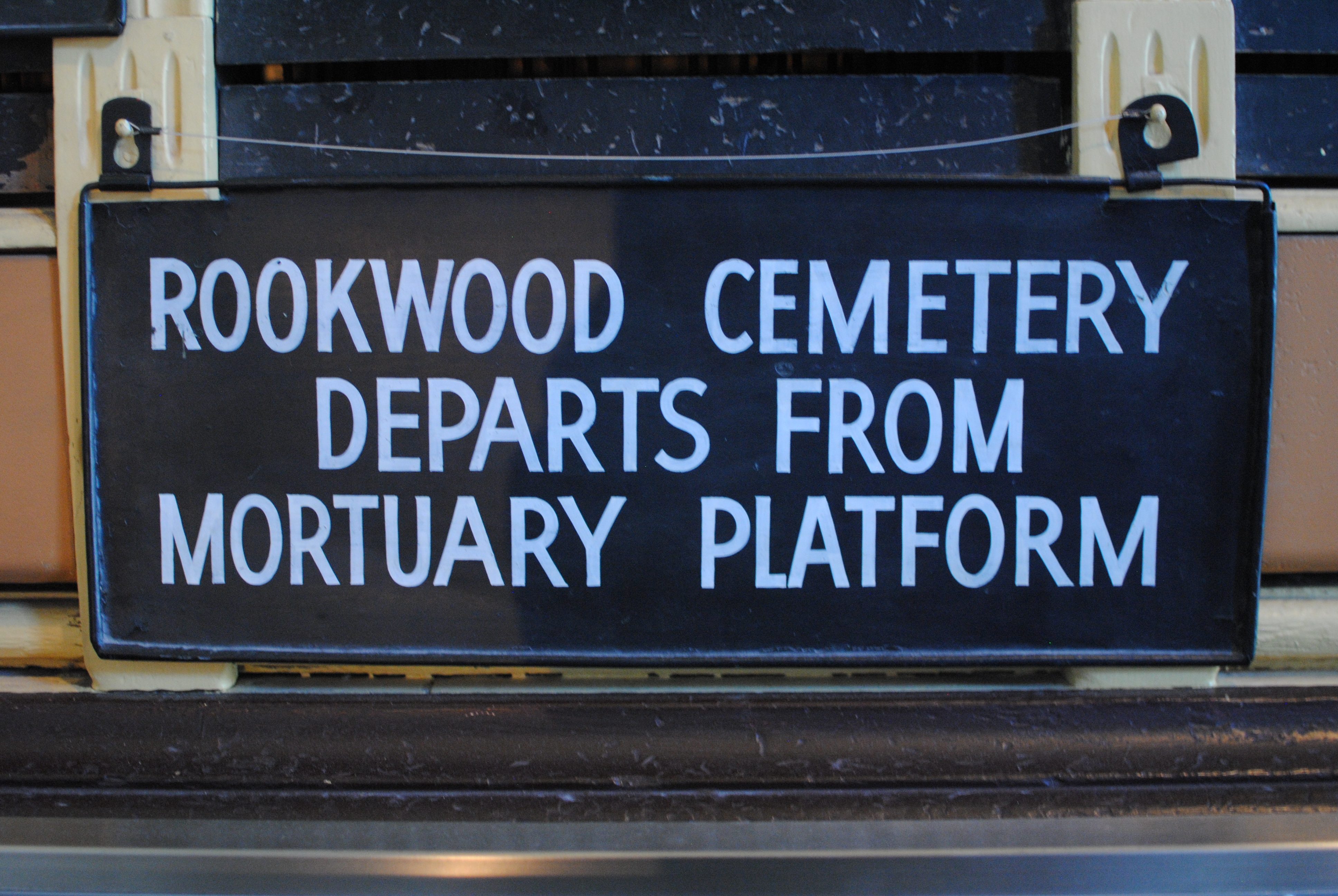 in the Powerhouse Museum, Sydney, NSW, Australia. [Camera's clock set to UTC]